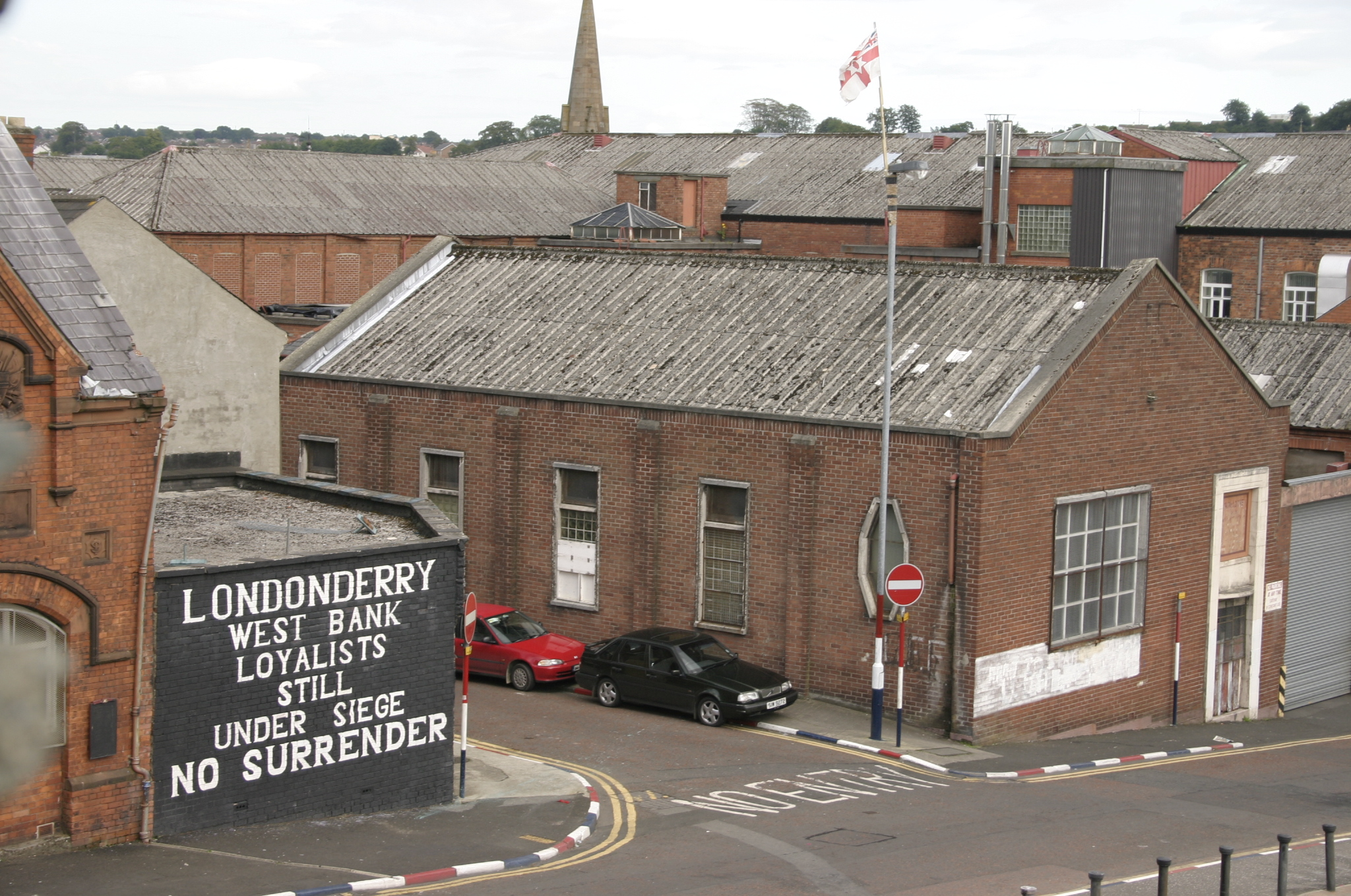 Picture of a loyalist mural, West Bank of Derry/Londonderry, Northern Ireland. "Londonderry West Bank Loyalists Still under siege NO SURRENDER"